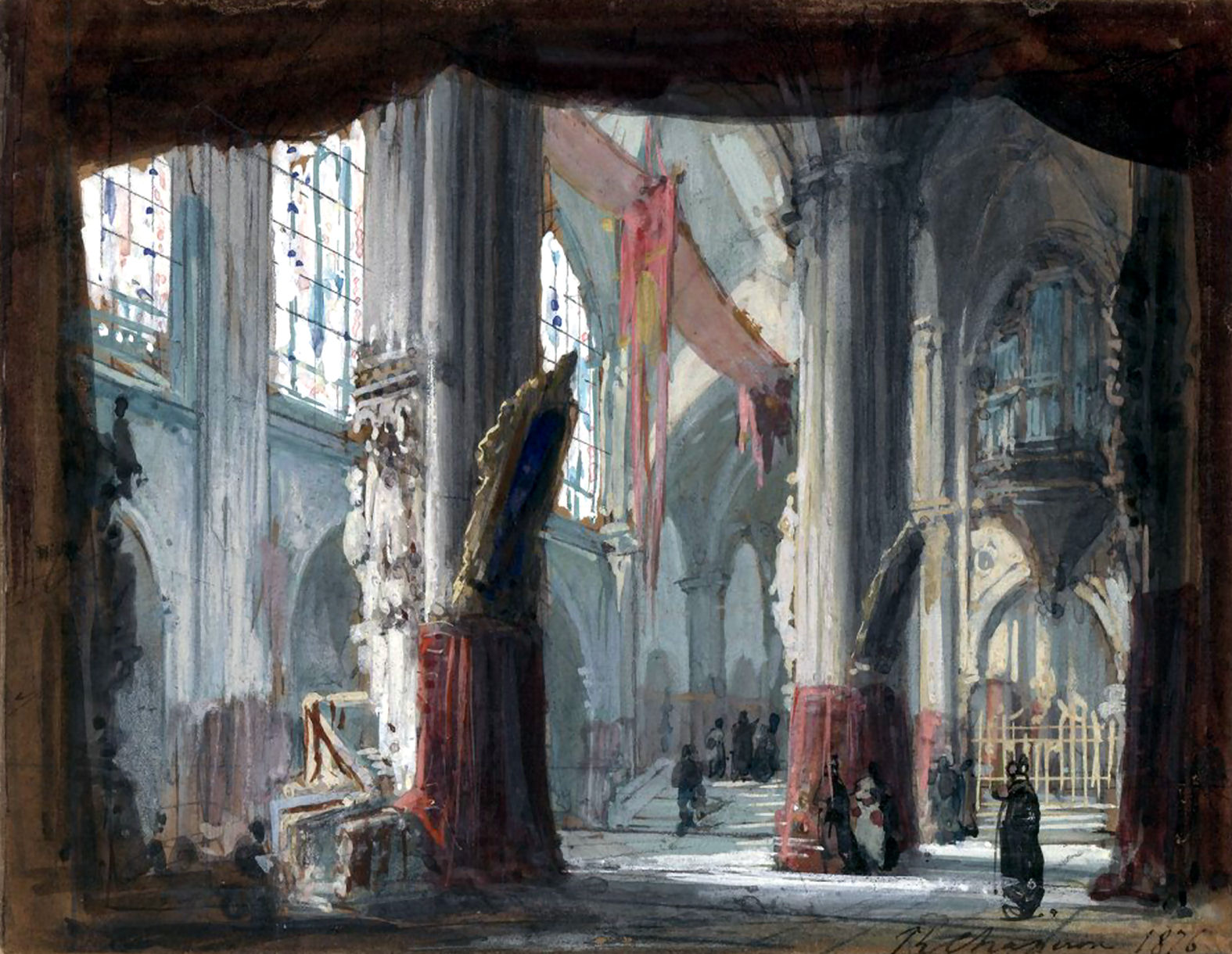 Le Prophète : sketch of the opera set for the second scene of the fourth act (1876) by Philippe Chaperon (1823-1906)